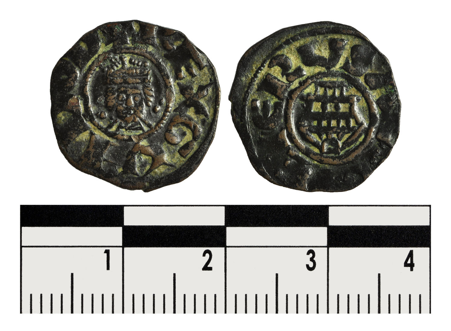 Coin issued by Guy de Lusignan when he was Lord of Cyprus. The coin reads REX GVIDO D on the inverse. On the reverse EIERVSALEM is inscribed around the Holy Sepulchre, showing Guy's reluctance to abandon his claim to Jerusalem.